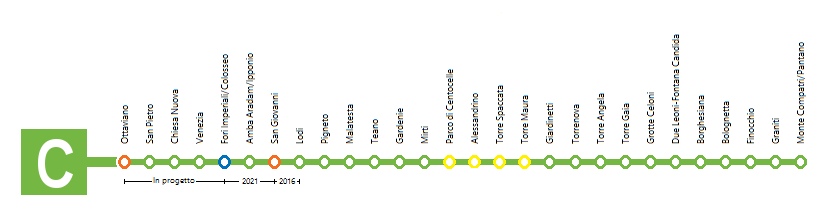 Unofficial (and obsolete) Maps of Line C of Rome's Metro.